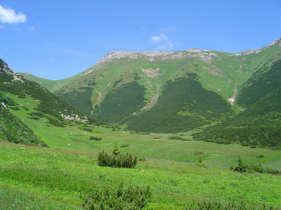 Zadne Jatky from Predne Medodoly